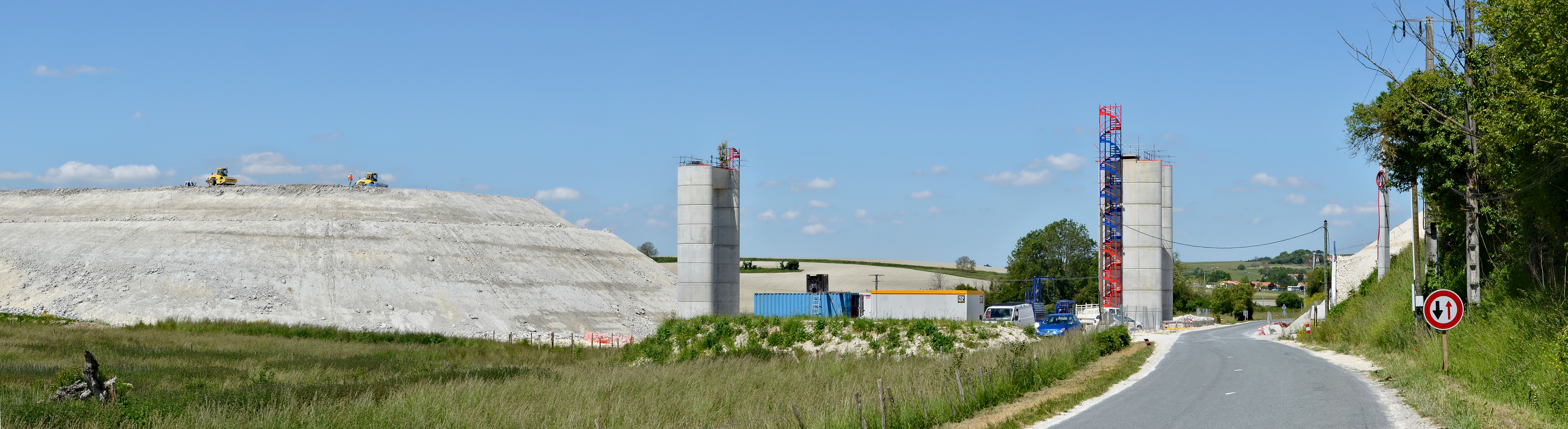 Works in progress : new LGV Sud Europe Atlantique (high speed railway line), near Blanzac, Charente, France.